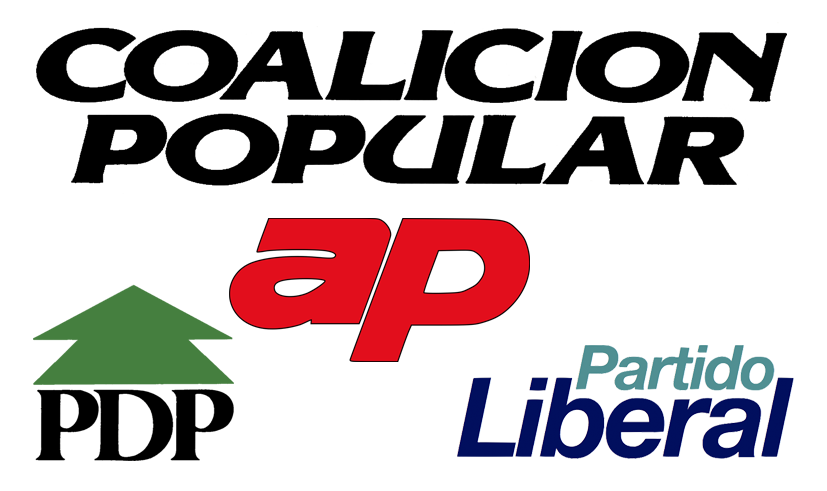 Coalicion Popular symbol used in advertisements